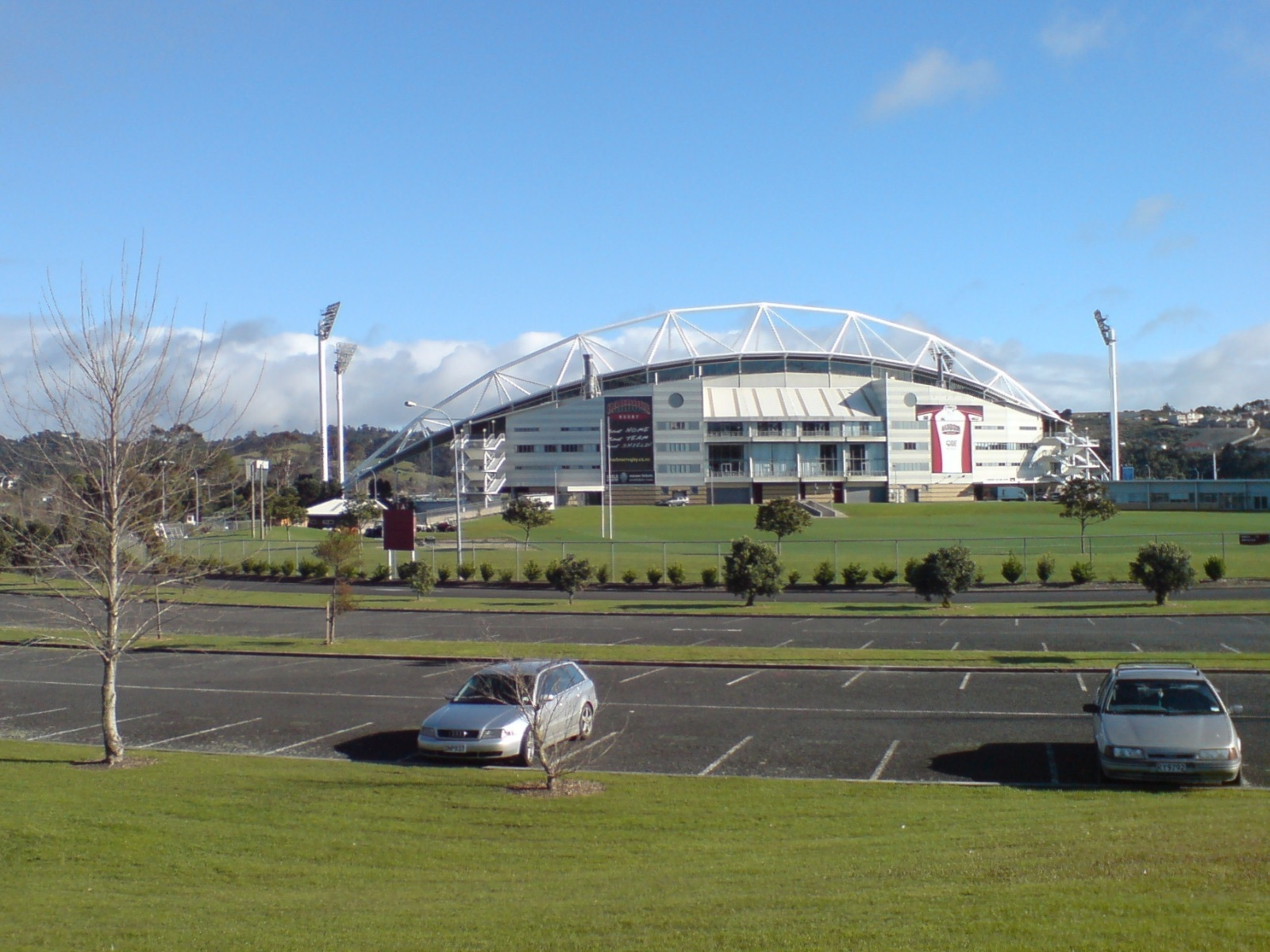 The North Harbour Stadium in North Shore City, New Zealand.